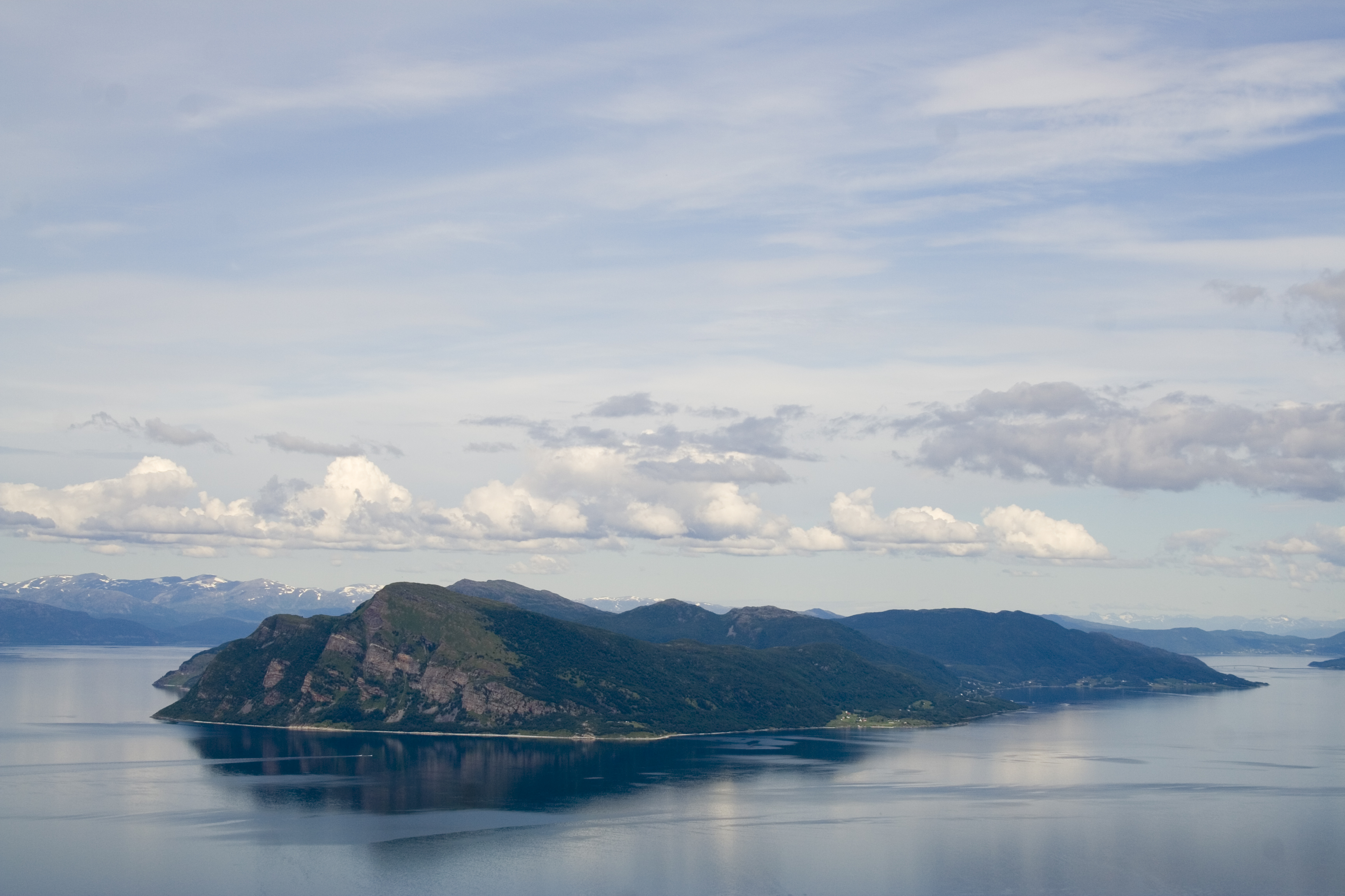 The picture shows Dyrøya in Troms as viewed from Andørja. To the far right you can see Dyrøybrua. The fjord to the left of the island is called Tranøyfjorden